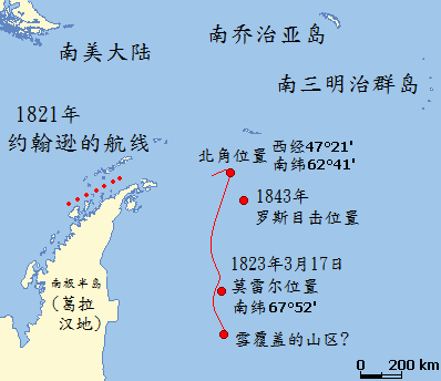 New South Greenland Map in Simplified Chinese